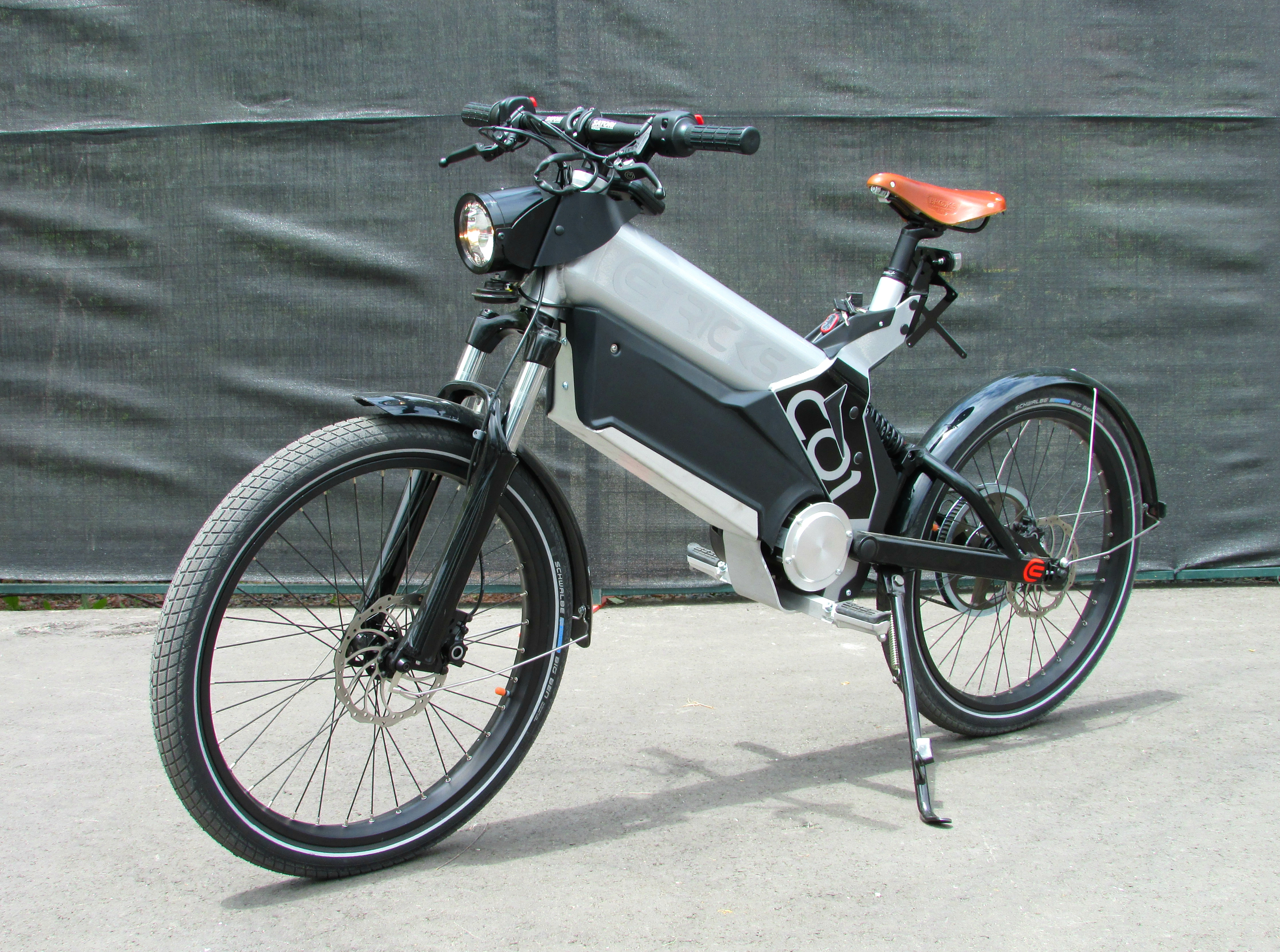 eTricks C01, electric bycicle made in France